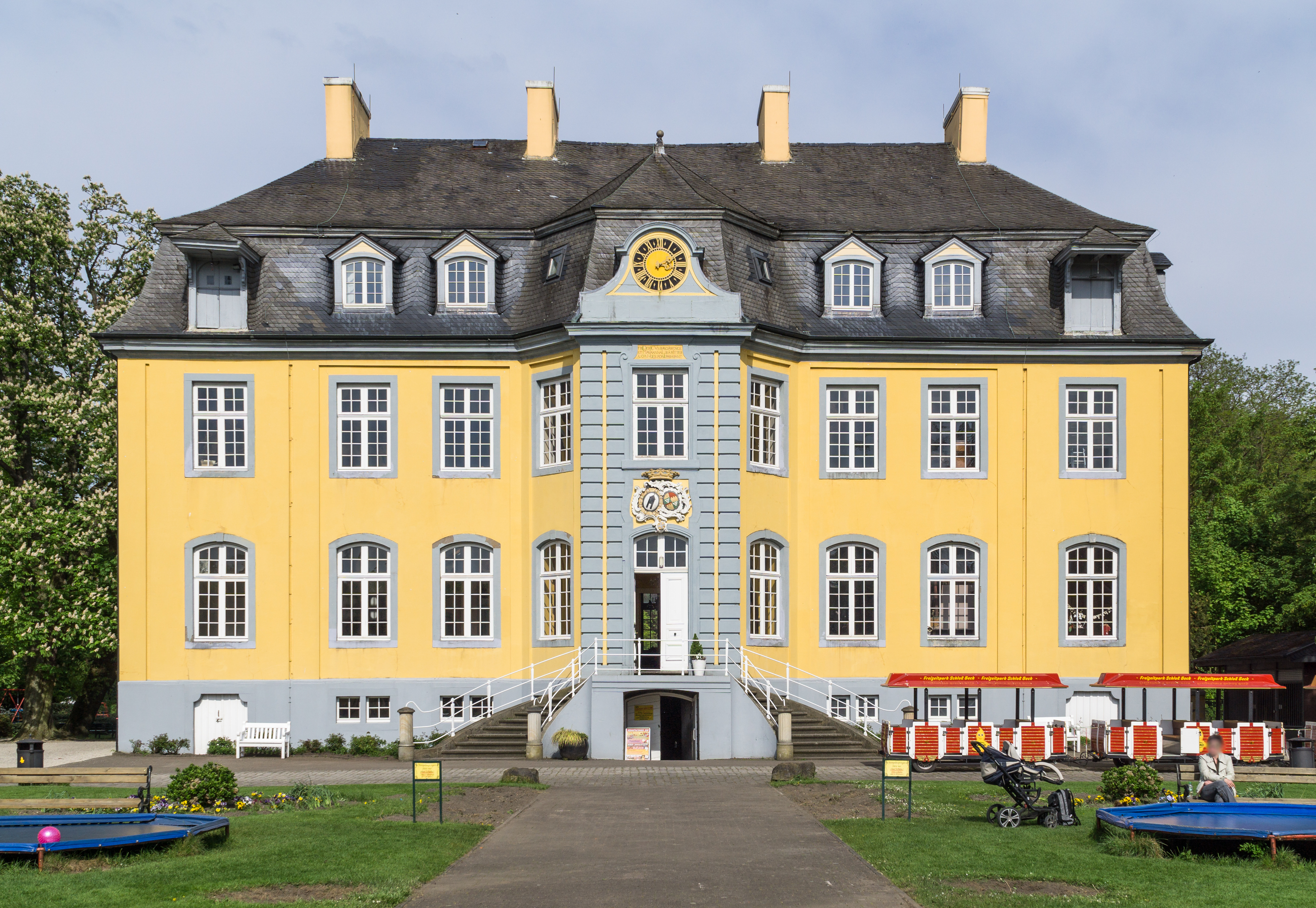 Exterior of Schloss Beck